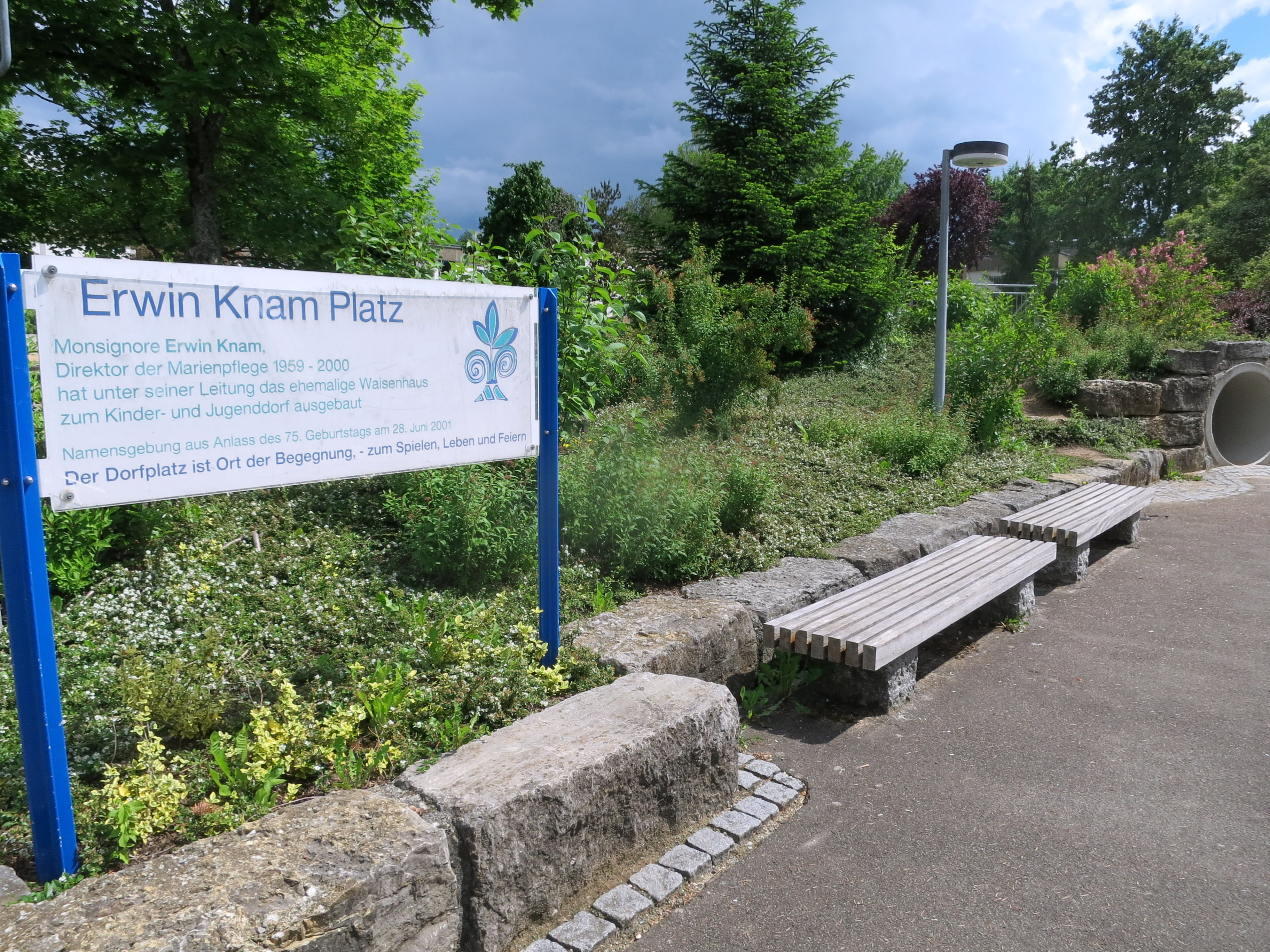 Village for children - pictures of the site Marienpflege Ellwangen